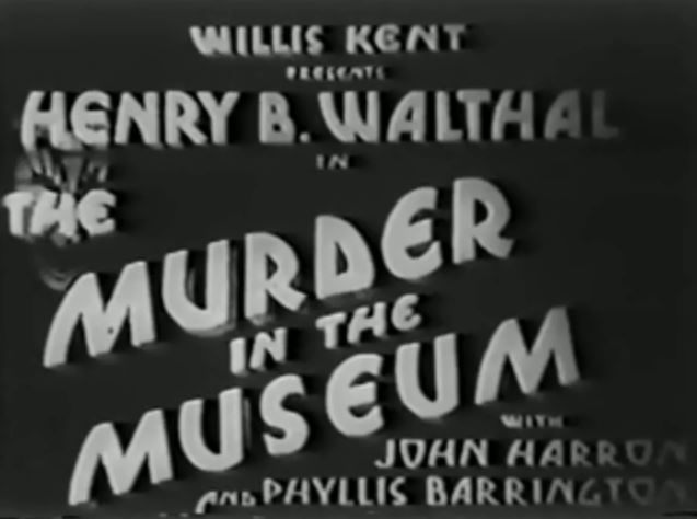 Title card for the film The Murder in the Museum (1934). The film is now in the public domain.